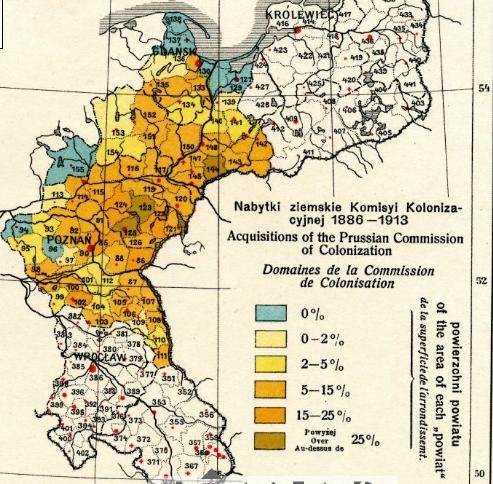 The Prussian Partition of Poland. Acquisitions of the Prussian Commission of Colonization 1886-1913.